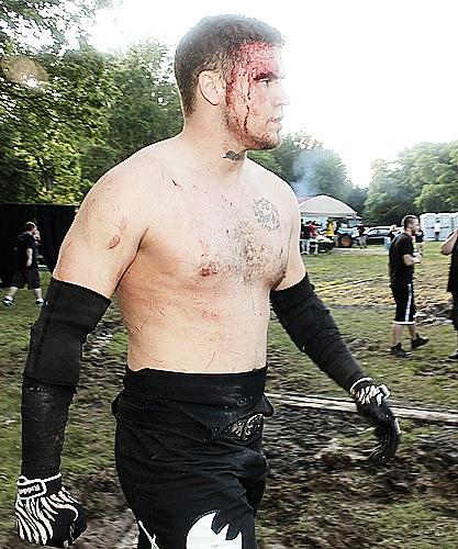 Danny Havoc from Tournament of Death 12